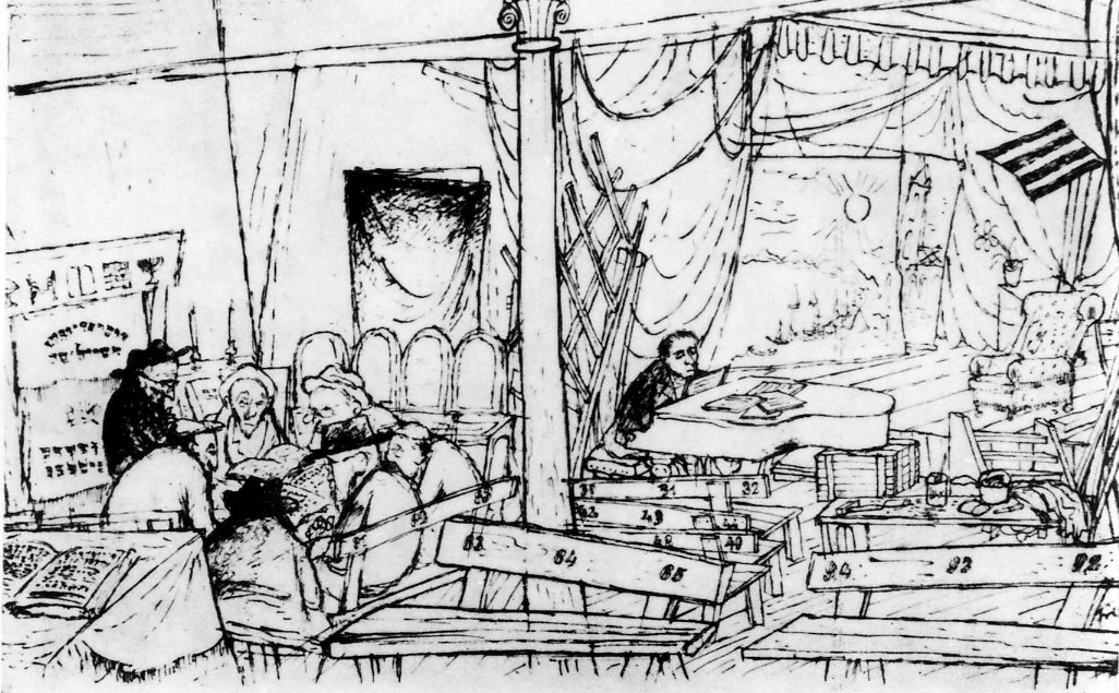 Drawing from the Theresienstadt ghetto